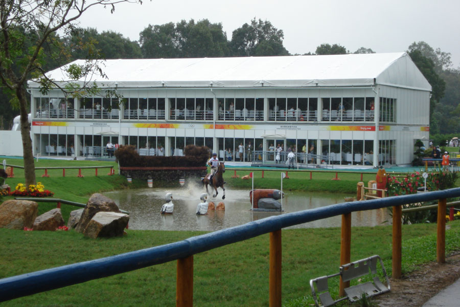 Beijing 2008 Olympic Game - Equestrian Event - Cross-Country Test of the Eventing Competition, held on The Olympic Equestrian Venue (Beas River) on 2008.8.13